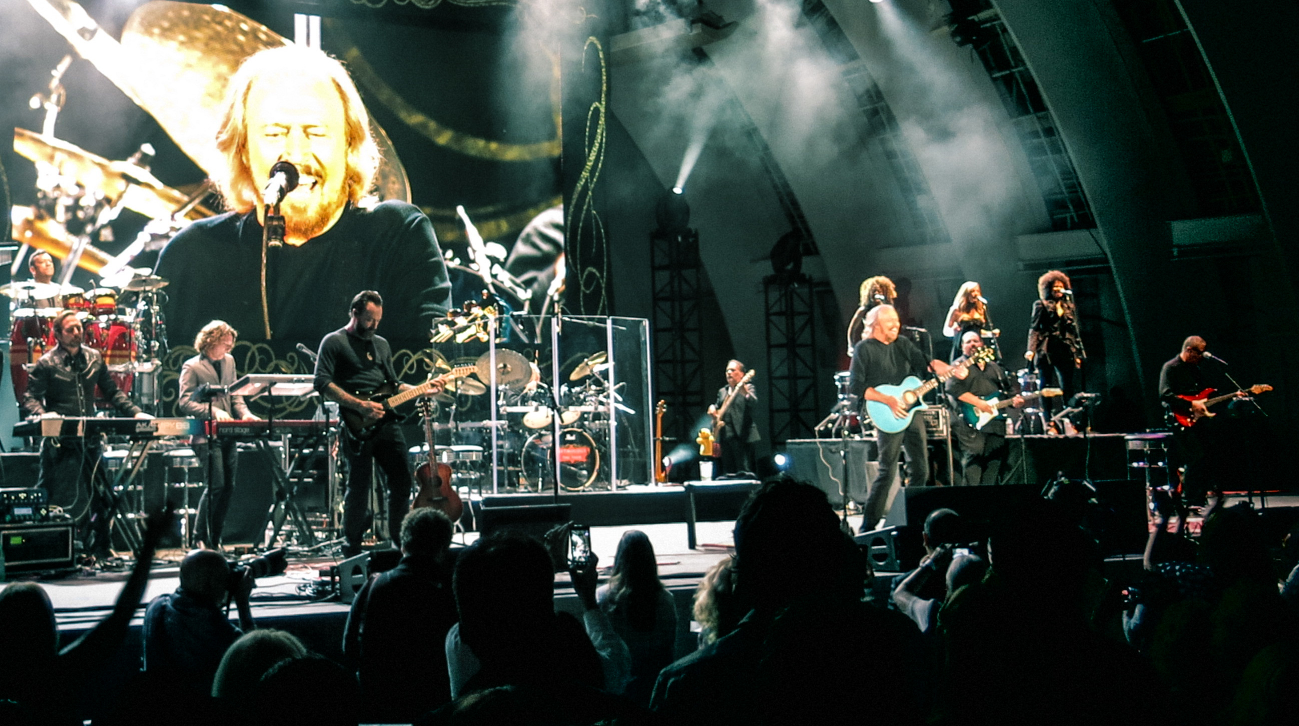 Barry Gibb in Mythology Tour 2014 (Barry Gibb Hollywood Bowl-0579).